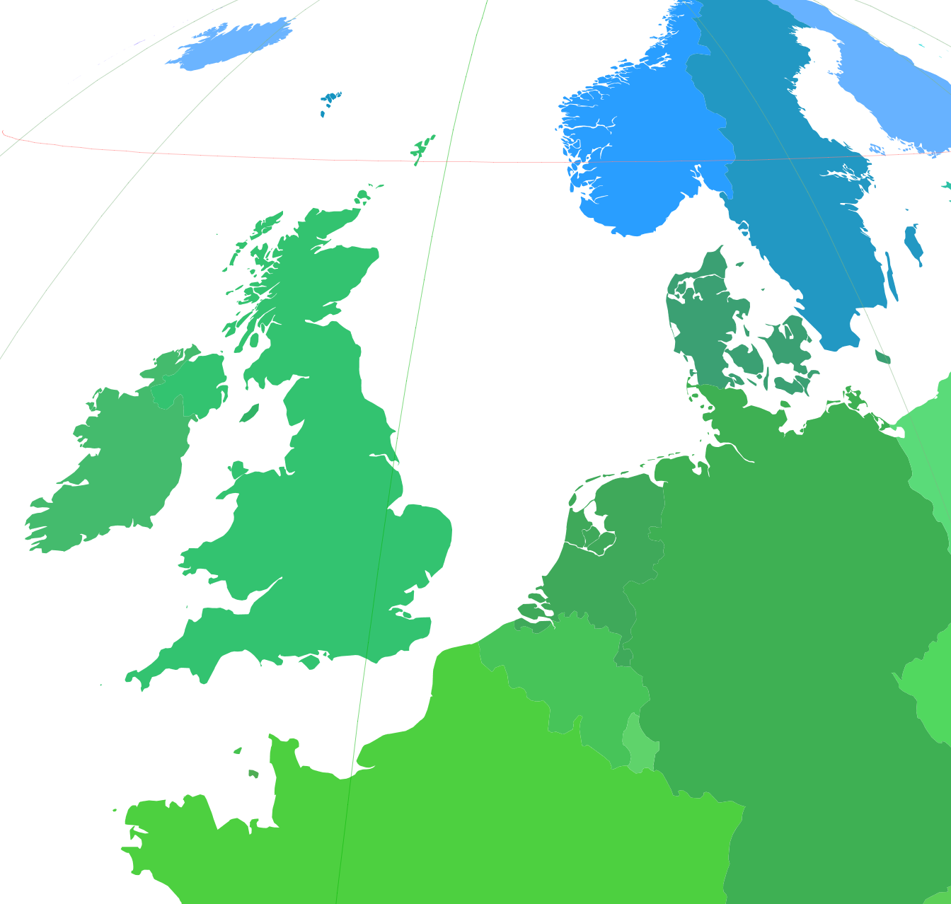 Political map of the surroundings of the Netherlands based on a satellite projection (satellite in a low orbit, camera below an angle of 0.5 rad. N.)